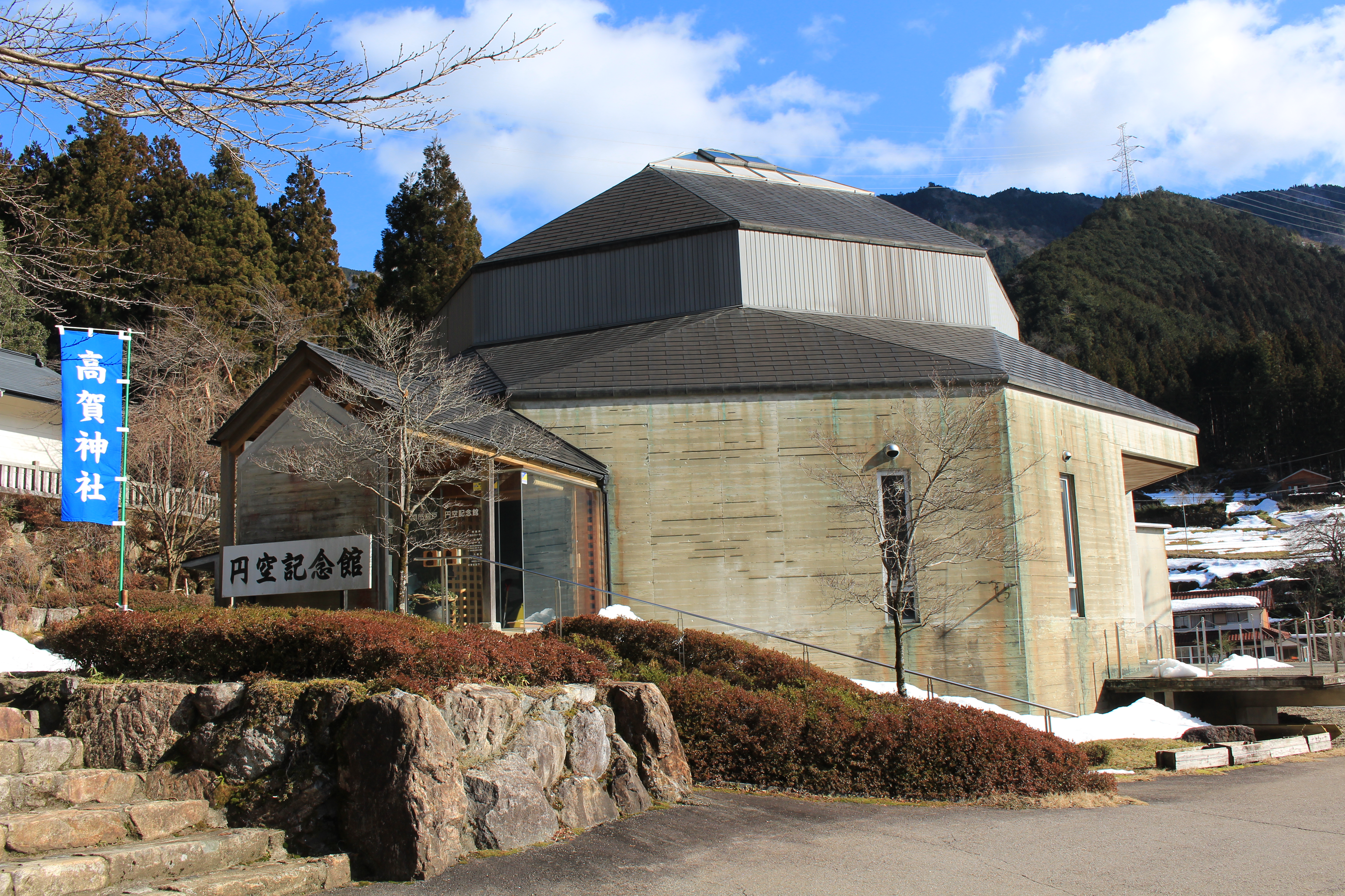 Enku Kinenkan near Kouka-jinja in Horado, Seki, Gifu prefecture, Japan.